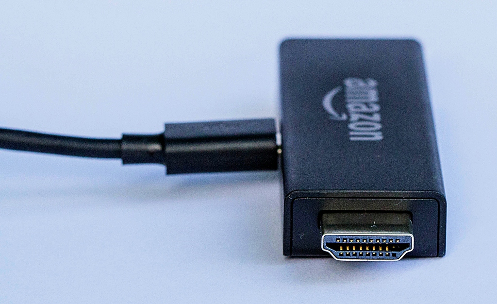 Amazon Fire TV Stick